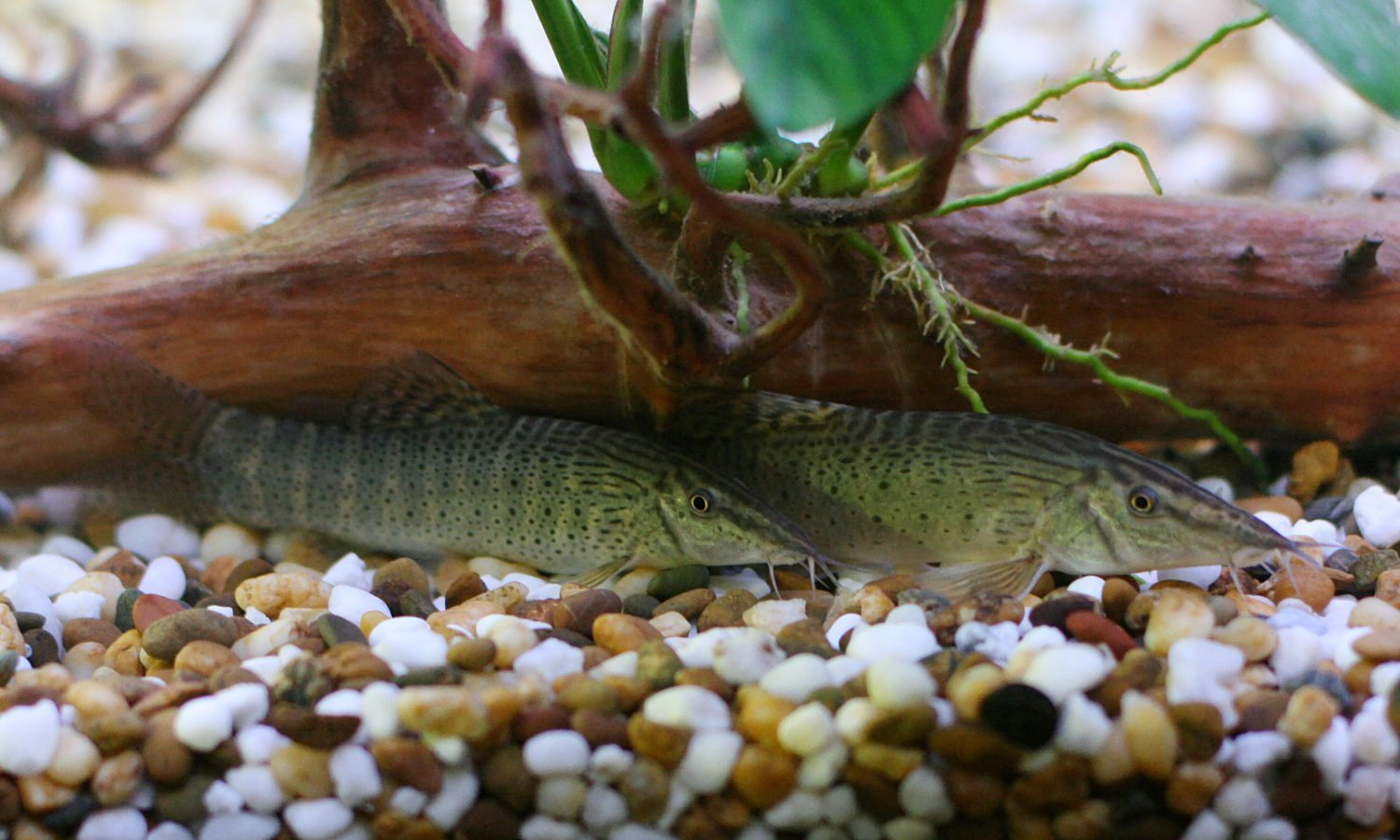 Syncrossus beauforti. Size about 12cm SL.